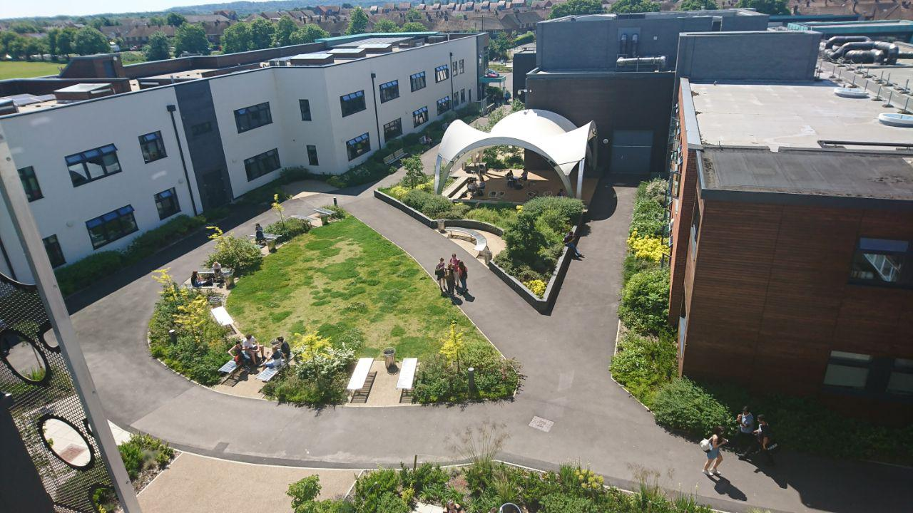 The Nobel Courtyard, taken from the top of the Science Centre building.